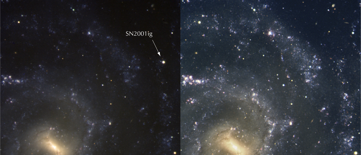 Two composite colour-coded image of a part of NGC 7424. The left image was made from an exposure taken with the FORS 2 instrument on VLT Yepun on June 16, 2002. In this, the supernova - although considerably fainter than when it was discovered six months earlier - is still well visible in the middle right of the image. The right image was obtained in October 2004, the supernova is no more apparent. The image covers 3.8 x 3.2 square arcminutes. North is up and East is to the right.